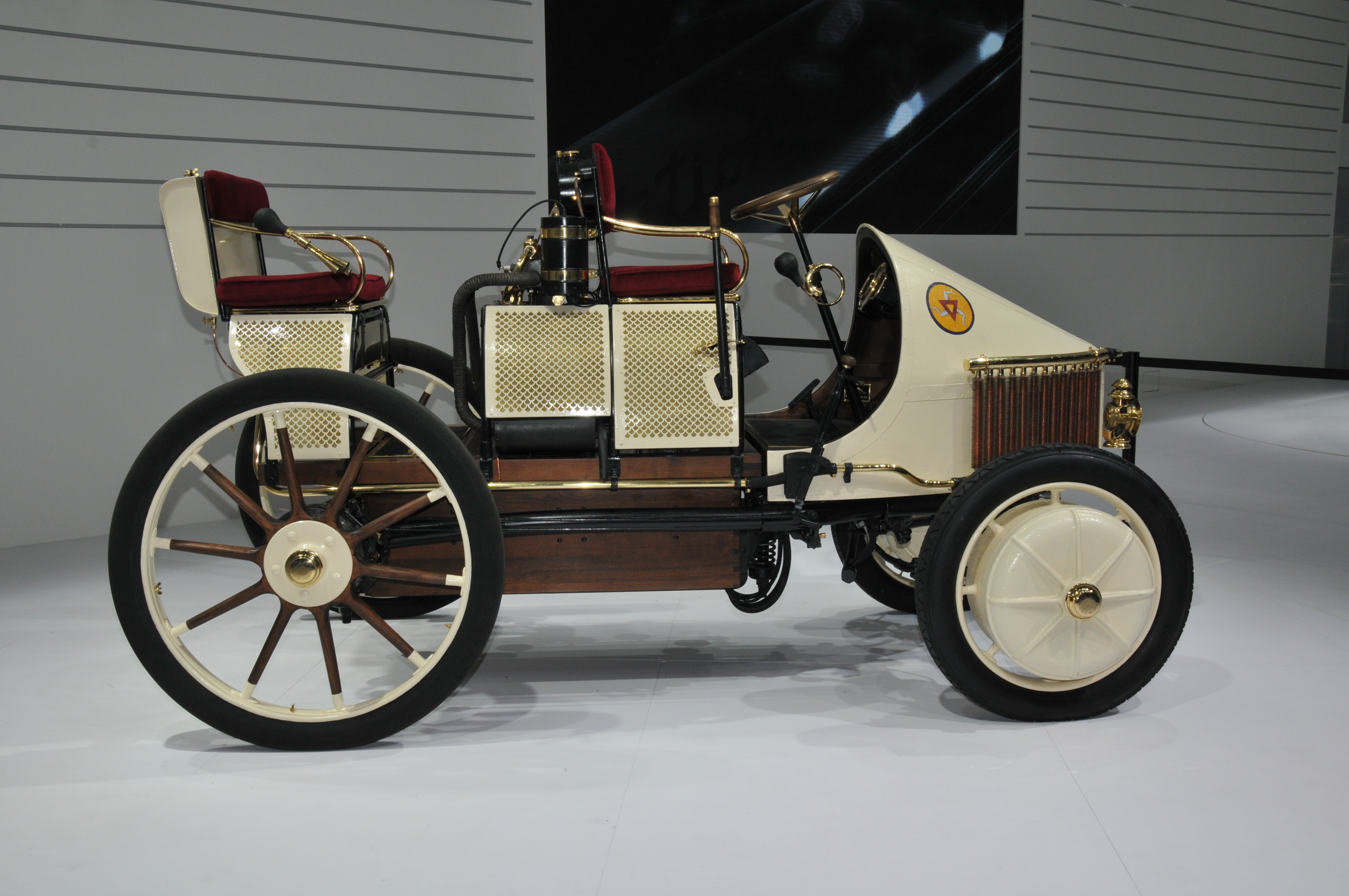 Geneva Motor Show 2011 - A recreation of the first hybrid vehicle: Ferdinand Porsche's 1900 'Semper Vivus' ('always alive').